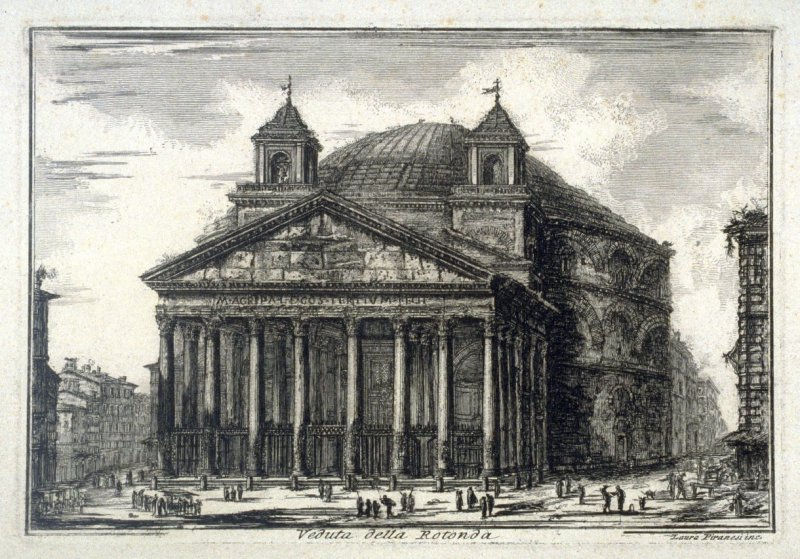 Veduta della Rotonda (View of the Pantheon in Rome), etching by Laura Piranesi (1755-1785).